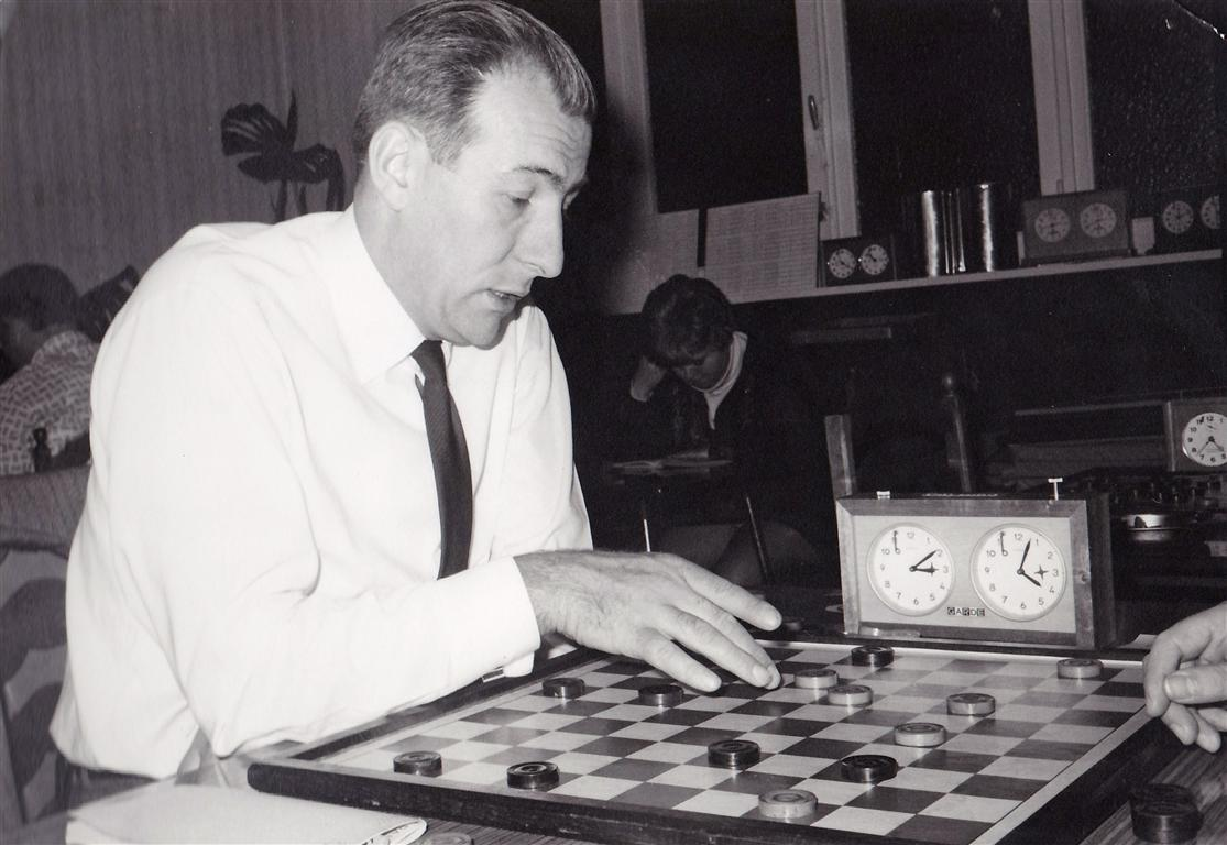 Hugo Verpoest